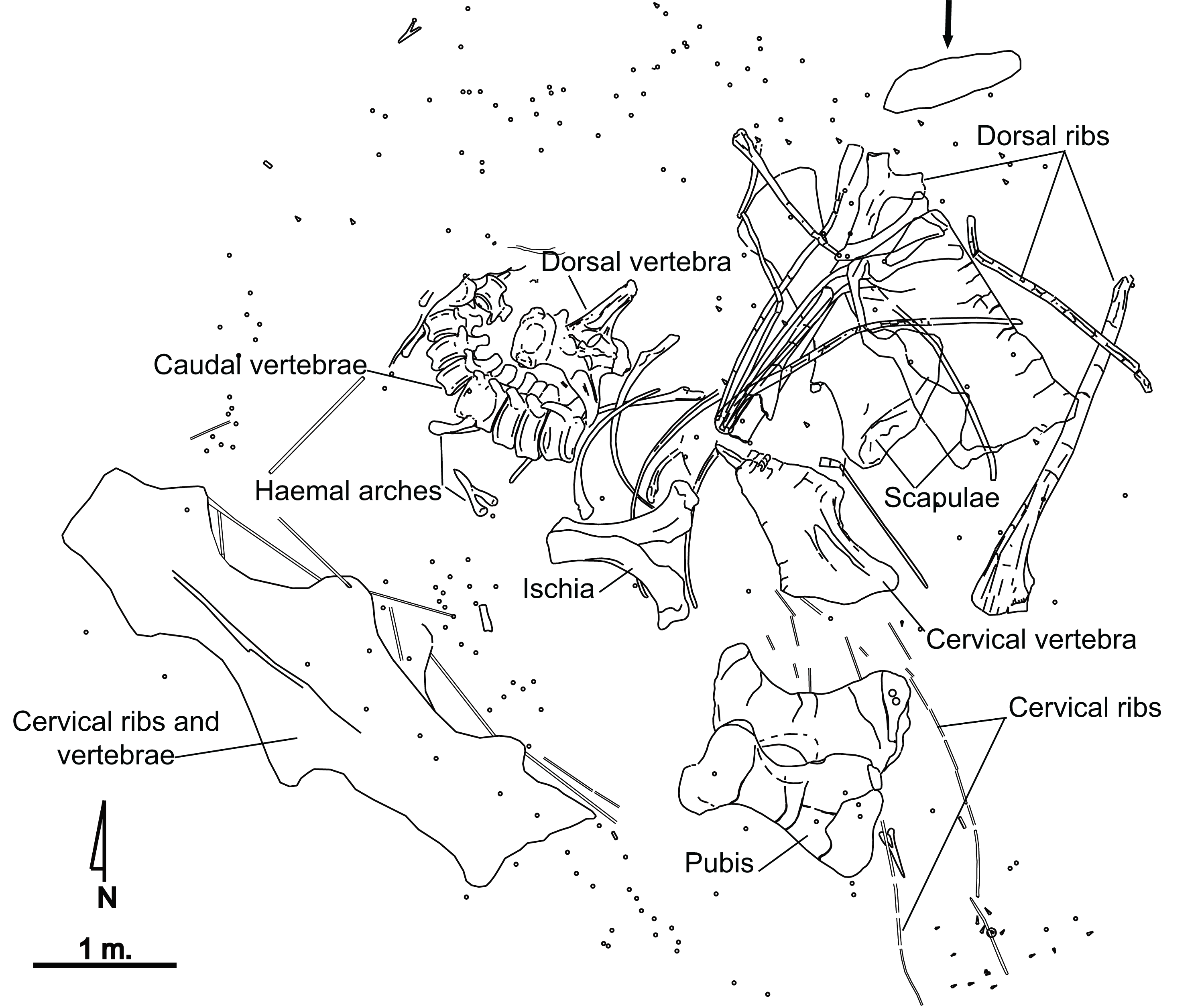 Quarry map of the partial skeleton of Europatitan eastwoodi n. gen. n. sp. from the late Barremian–early Aptian, Early Cretaceous, of El Oterillo II site, Spain. The arrow indicates an iguanodontoid ilium (Contreras et al., 2007). Circular symbols correspond to splinters, and triangles to isolated teeth of theropods.